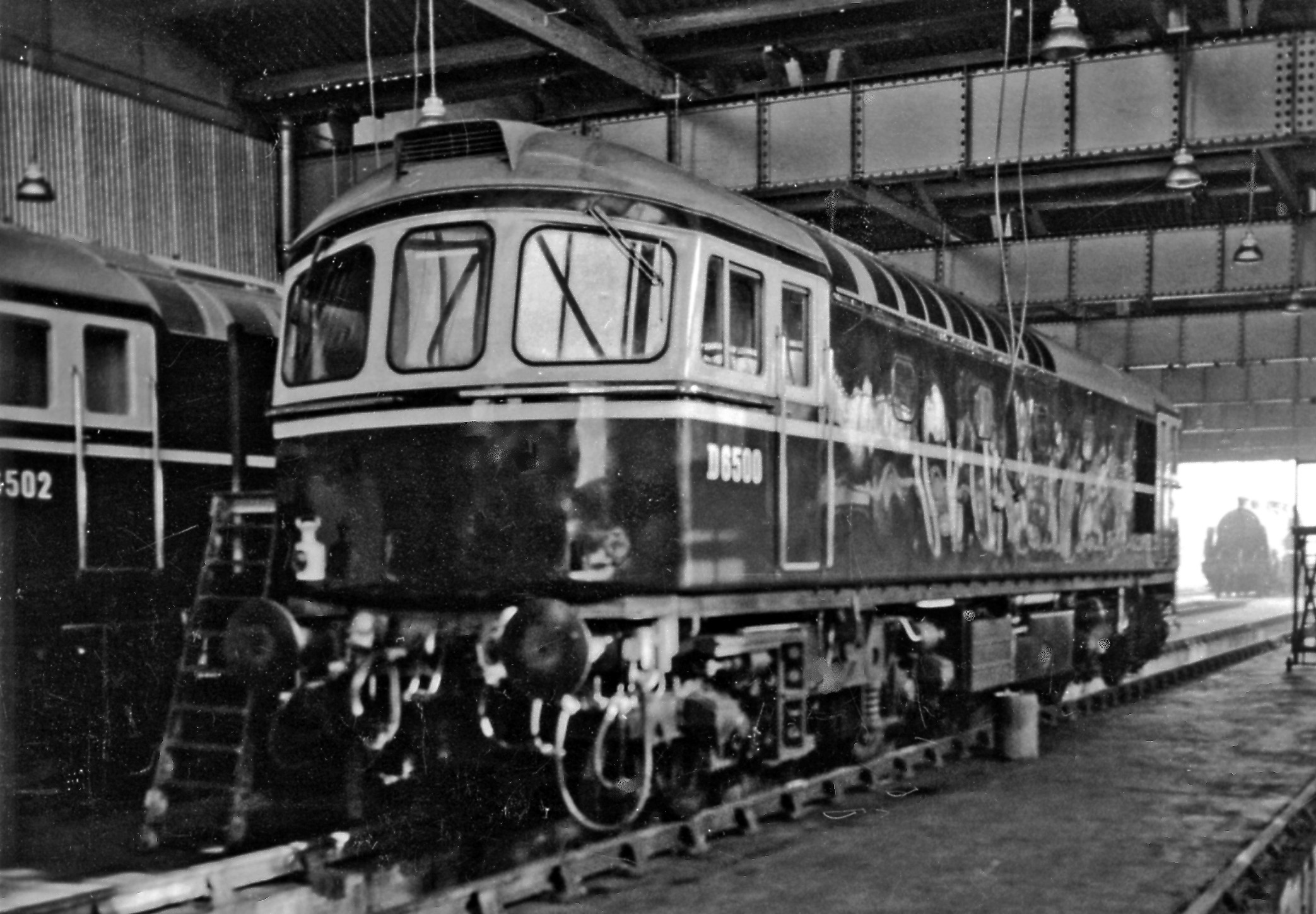 Brand-new Type 3 Diesel in Hither Green Shed. View SE inside Hither Green SR Locomotive Depot: No. D6500, the first of the Birmingham Railway Carriage & Wagon (BRCW) 1,550 hp Type 3 Bo-Bo's (later Class 33), is sparkling next to another (D6502), while outside can be seen an SR steam 2-6-0 to be supplanted.